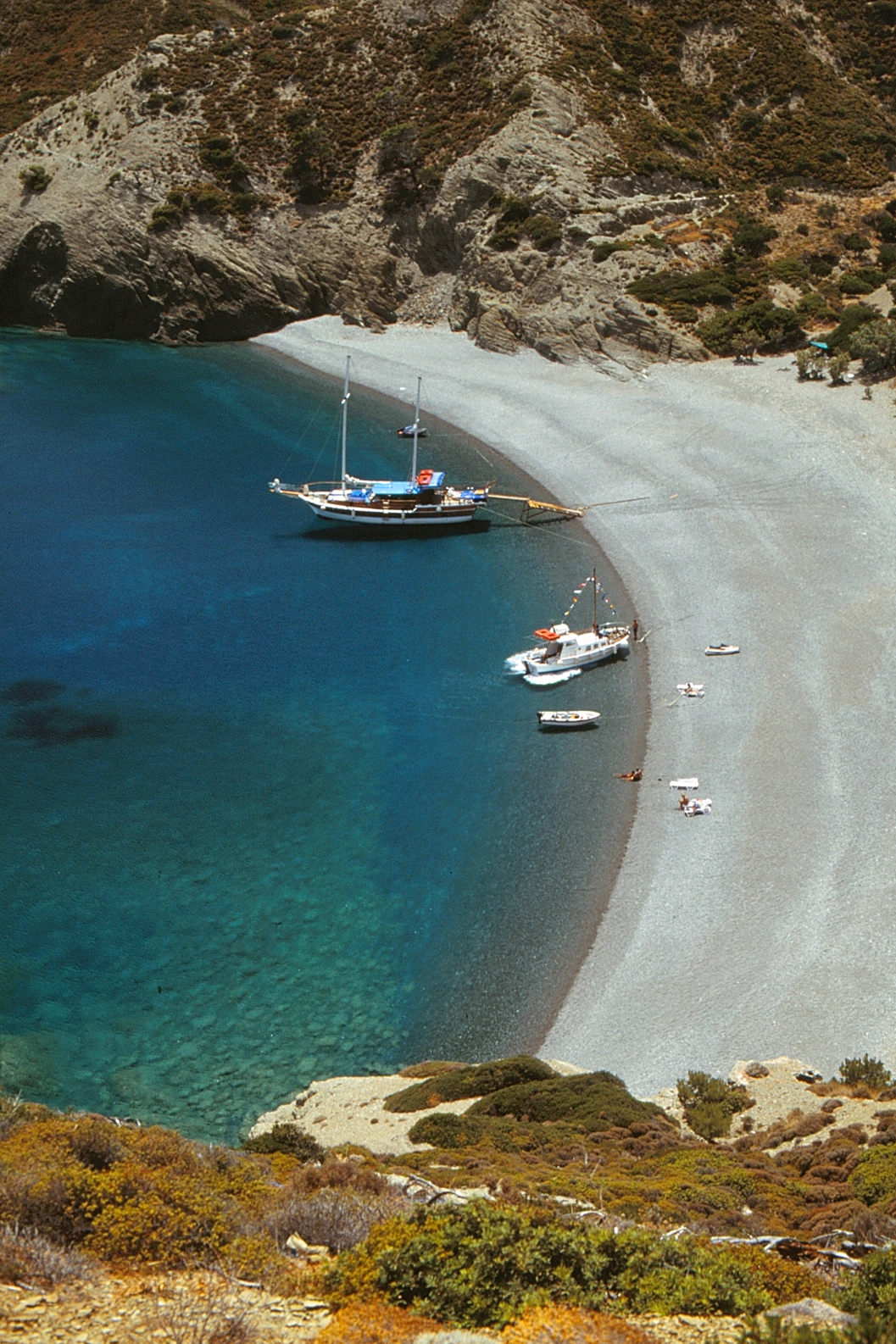 This is a photography of Natura 2000 protected area with ID GR4210003